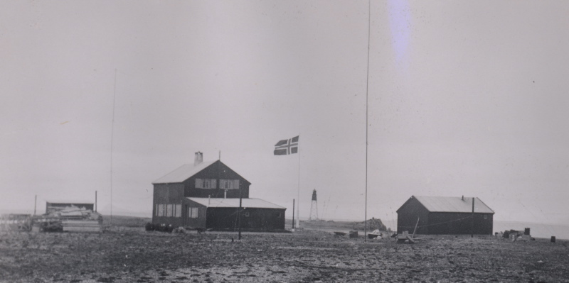 Isfjord Radio, Svalbard, Norway, seen from the south